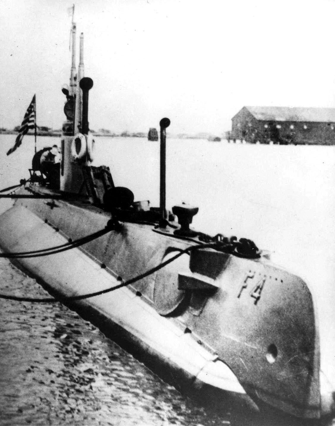 United States Navy submarine